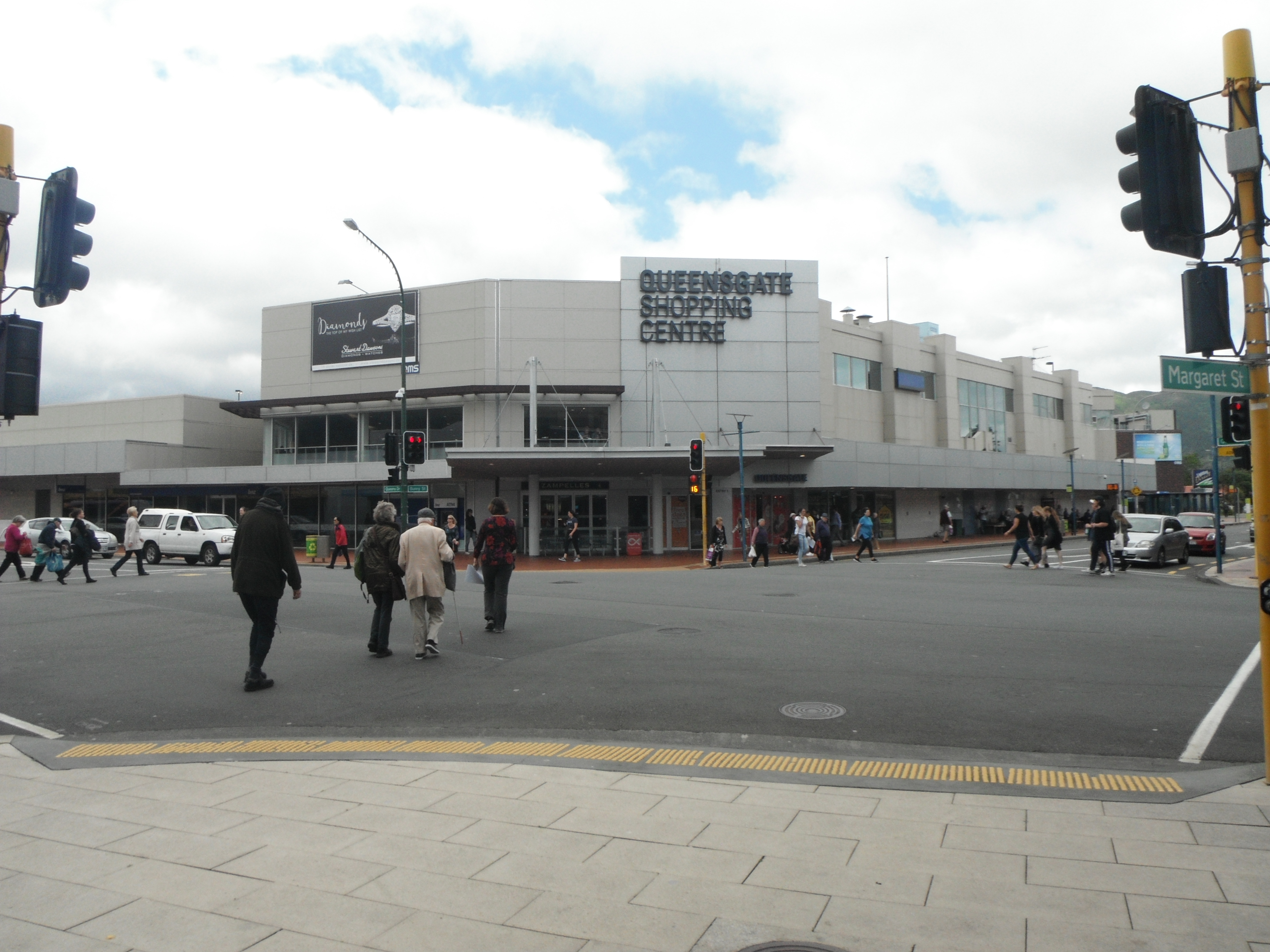 The western entrance to Queensgate Shopping Centre, at the intersection of Queens Drive and Bunny Street in central Lower Hutt, New Zealand.